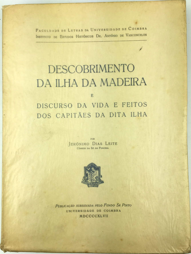 Descobrimento da ilha da Madeira e Discurso da vida e feitos dos Capitães da dita Ilha, 1947